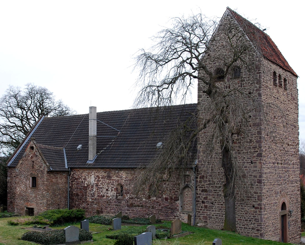 St Jacob Germany